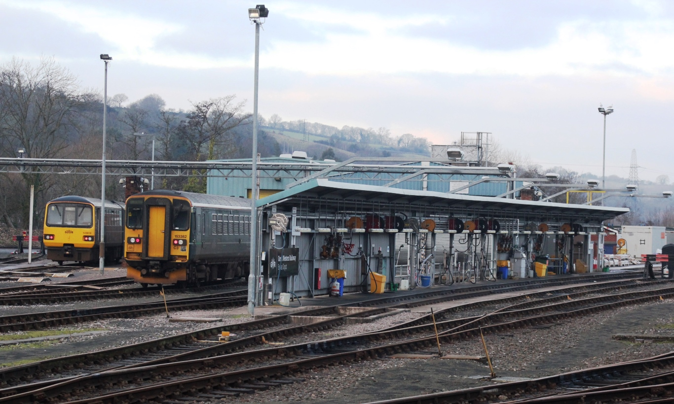 Great Western Railway's train care depot at Exeter. "On shed" today are 'Pacer' 143618 and single-car 153382.